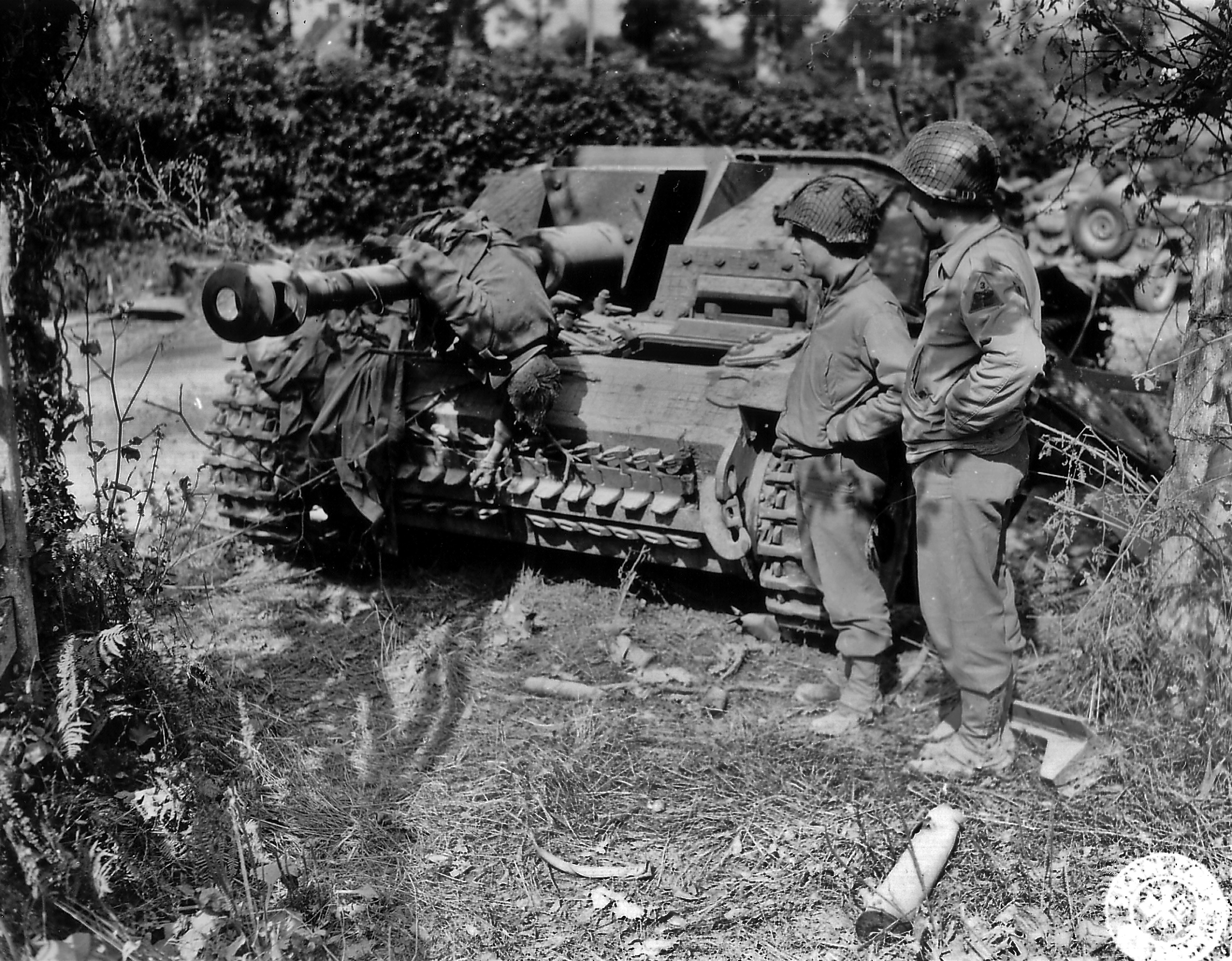 Men of 3rd Armored Division look at the front of a knocked out Sturmgeschütz, the corpse of one of the crew found itself suspended on the end of the barrel of the cannon.